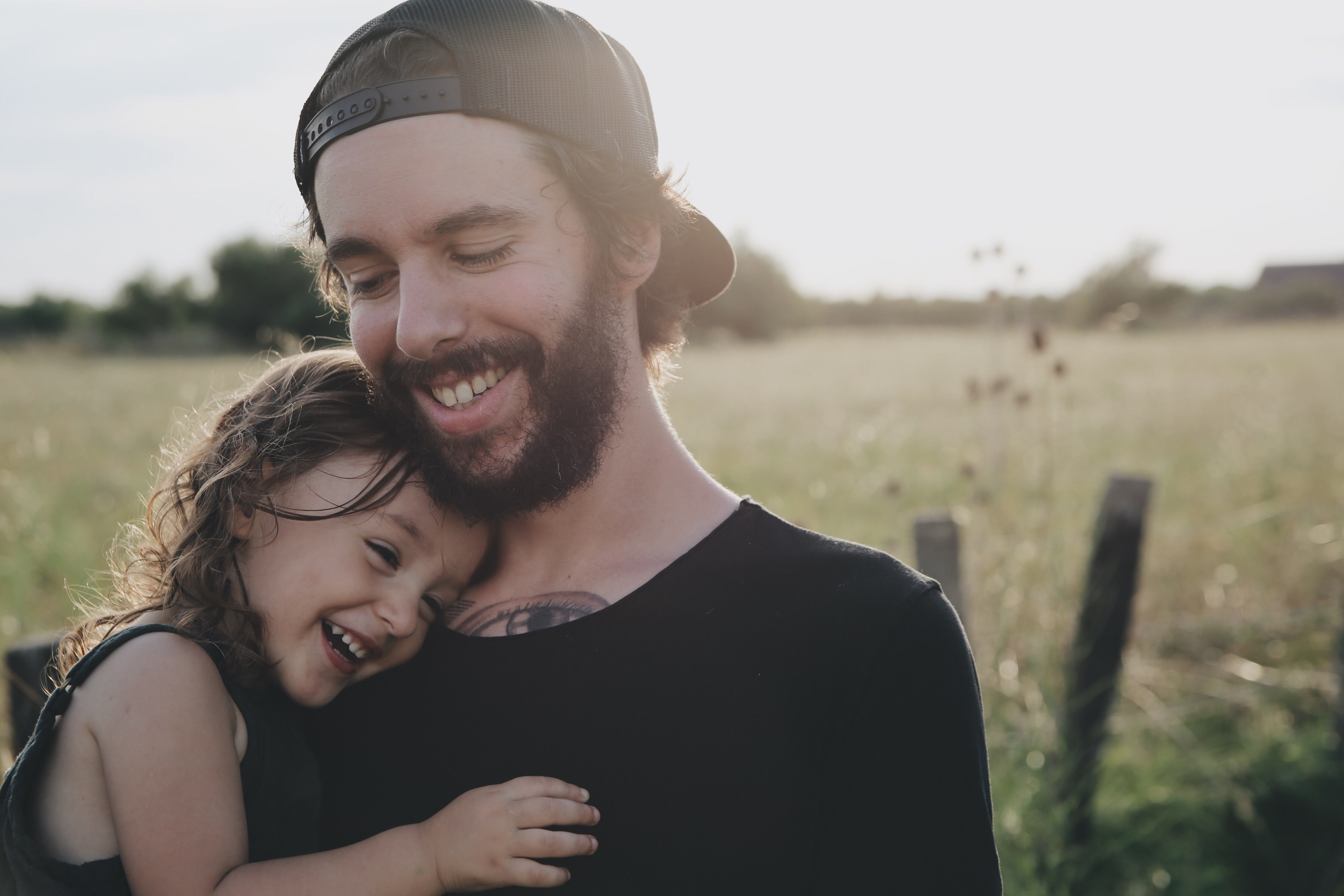 Caroline Hernandez 2016